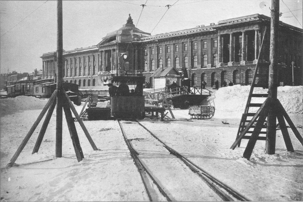 Tramway line laid on the ice of Neva River, St. Petersburg, Russia in 1895-1910